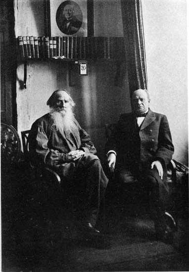 Koni Anatolii Fedorovish and Tolstoy Lev Nikolaevish.